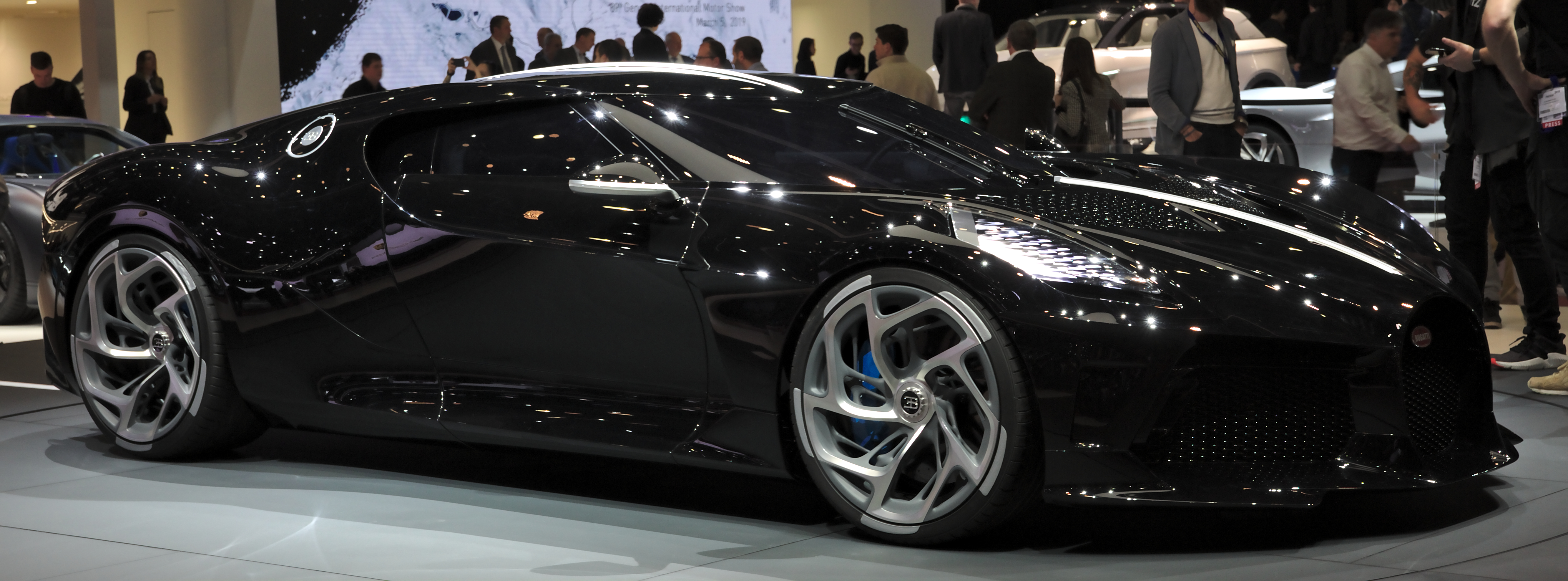 Bugatti La Voiture Noire at Geneva Motor Show 2019